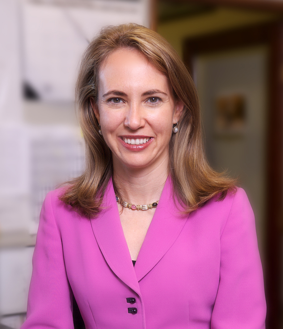 Gabrielle Giffords, U.S. Congresswoman.